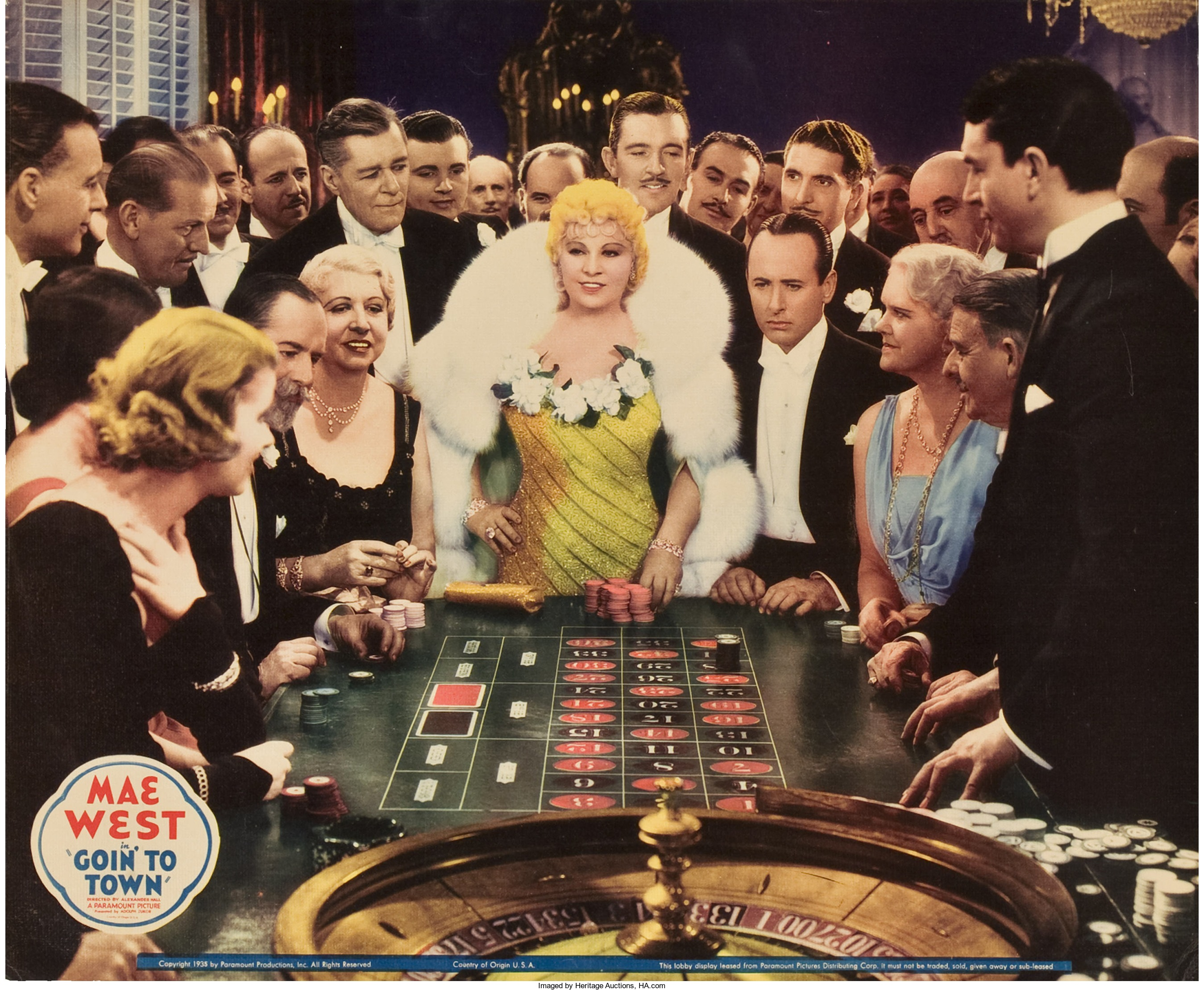 Lobby card for the American film Going To Town.